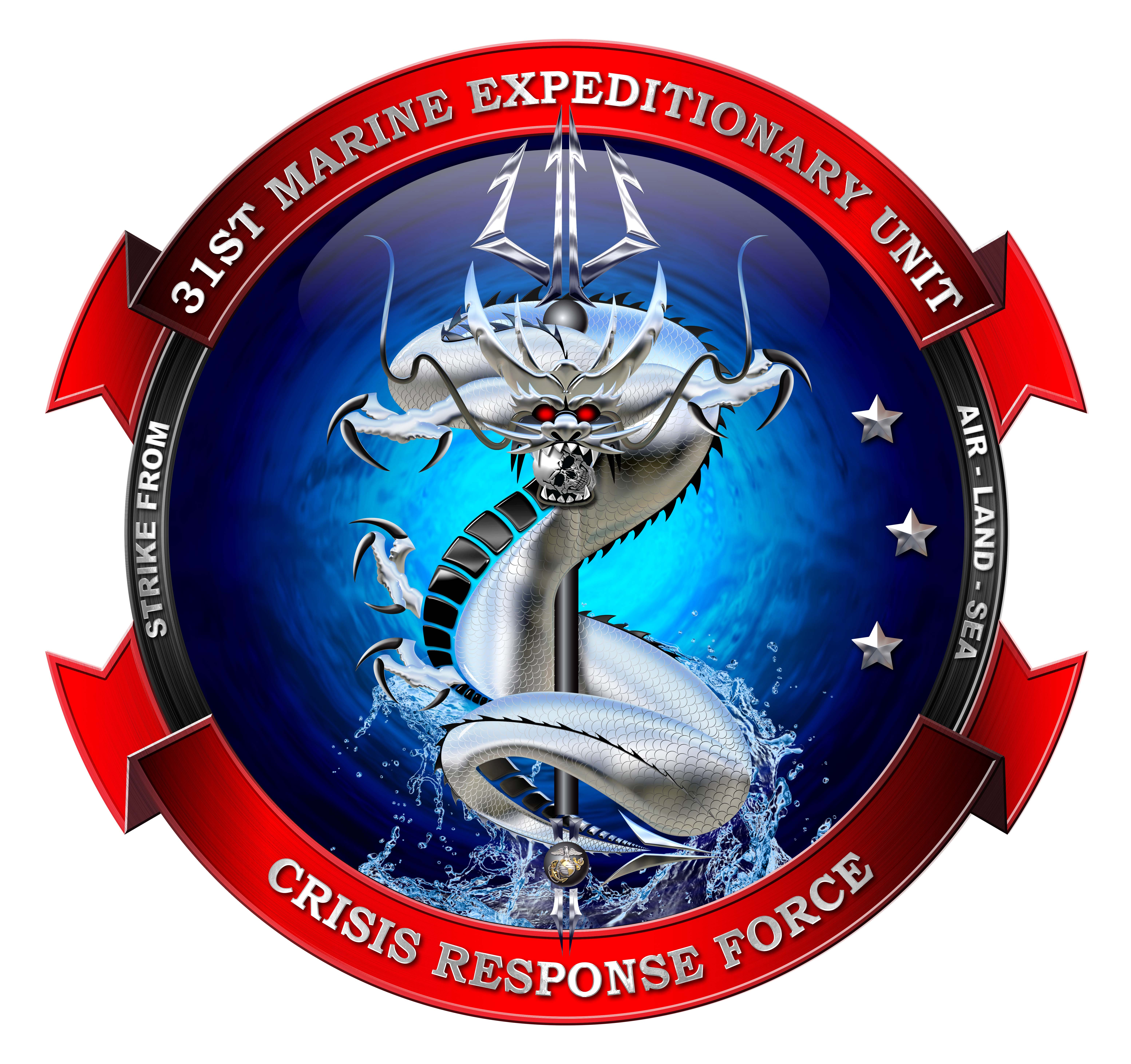 31st MEU Crisis Response Force Insignia